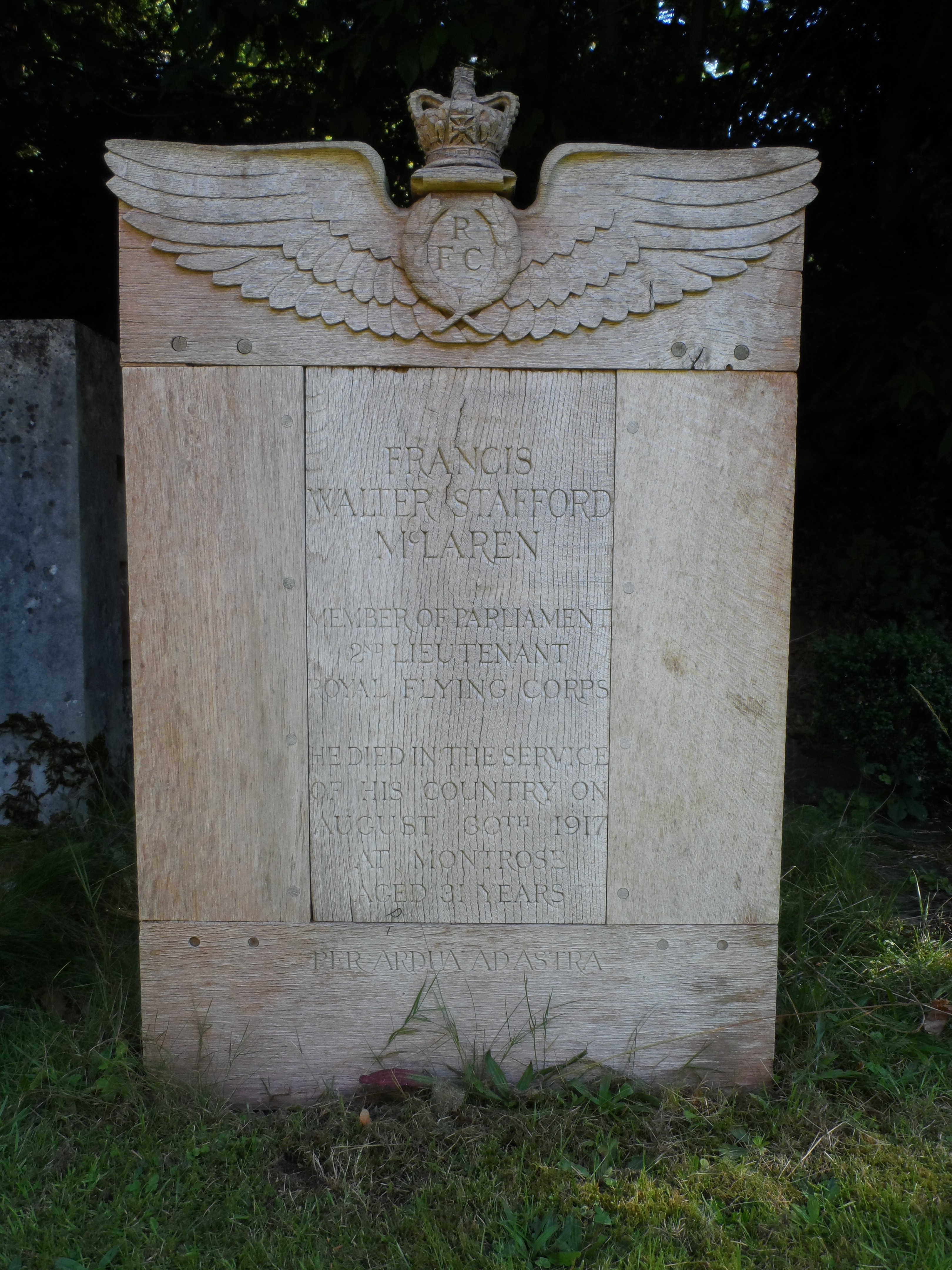 Francis McLaren headstone and memorial in the churchyard at St John the Baptist's church, Busbridge, Surrey, UK. Commemorates Francis McLaren (1886-1917) - CWGC casualty details. Designed by Edwin Lutyens (1869-1944). RFC inscribed on wings. Inscription: FRANCIS WALTER STAFFORD MCLAREN MEMBER OF PARLIAMENT 2ND LIEUTENANT ROYAL FLYING CORPS HE DIED IN THE SERVICE OF HIS COUNTRY ON AUGUST 30TH 1917 AT MONTROSE AGED 31 YEARS PER ARDUA AD ASTRA. For the inscription on the rear of the memorial, see File:Francis McLaren headstone and memorial 02.jpg.